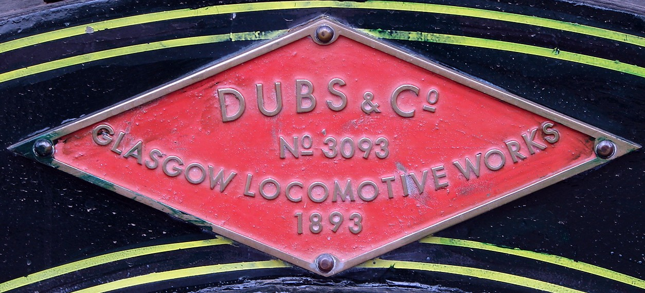 Builder's works plate Ex Cape Government Railways Class 6 no. 368, renumbered to 568 Ex Oranje-Vrijstaat Gouwermentspoorwegen Class 6 no. 68 Ex Central South African Railways Class 6-L1 no. 344 South African Railways Class 6 no. 439 Builder's works number: Dübs 3093 Location: Capital Park, Pretoria, Gauteng